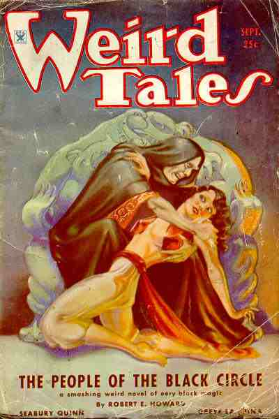 Cover of the pulp magazine Weird Tales (September 1934, vol. 24, no. 3) featuring The People of the Black Circle by Robert E. Howard. Cover by Margaret Brundage depicting the Devi of Vendhya in the hands of the wizard called The Master of Yimsha.